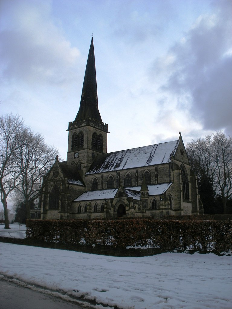 The new church at Wentworth in the snow